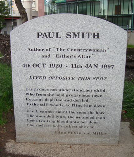 Photo of memorial to Paul Smith, near the Grand Canal, Dublin, taken by me.